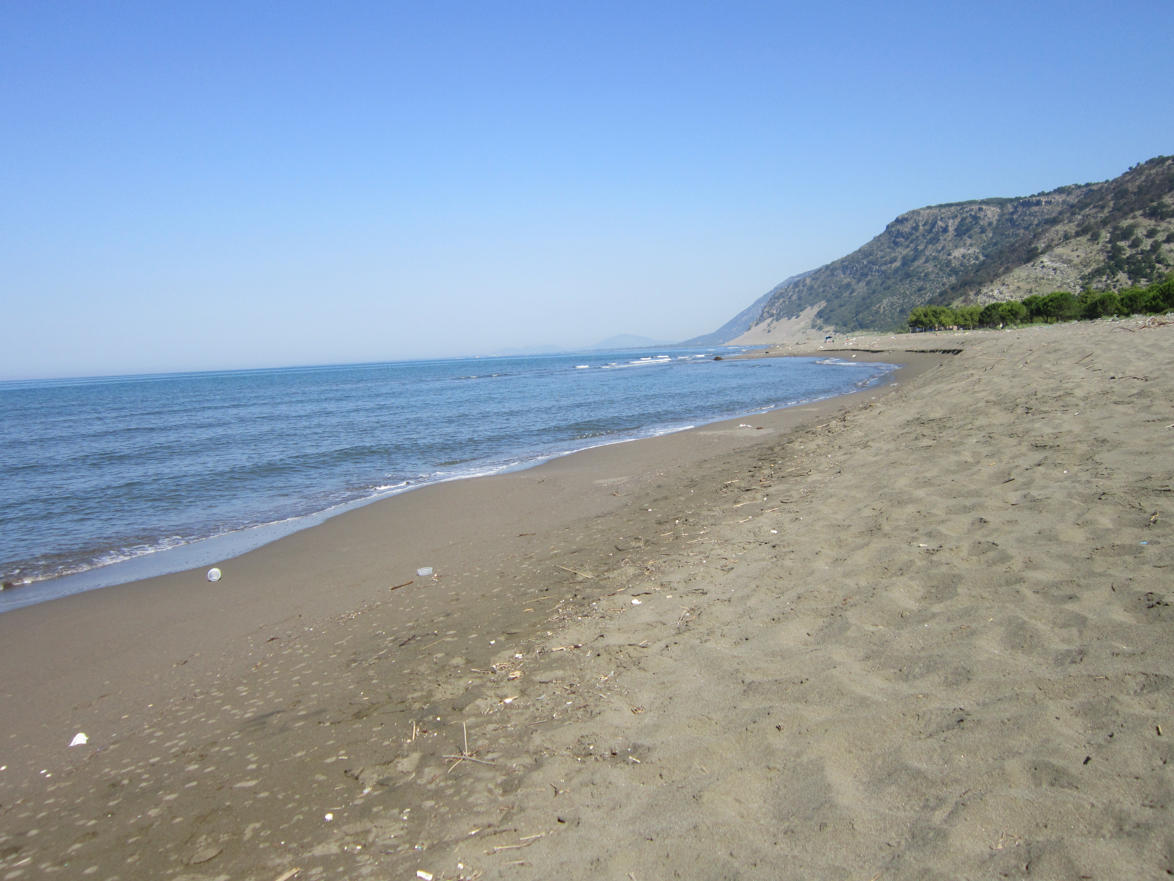 This is a photo of shengjin's rana